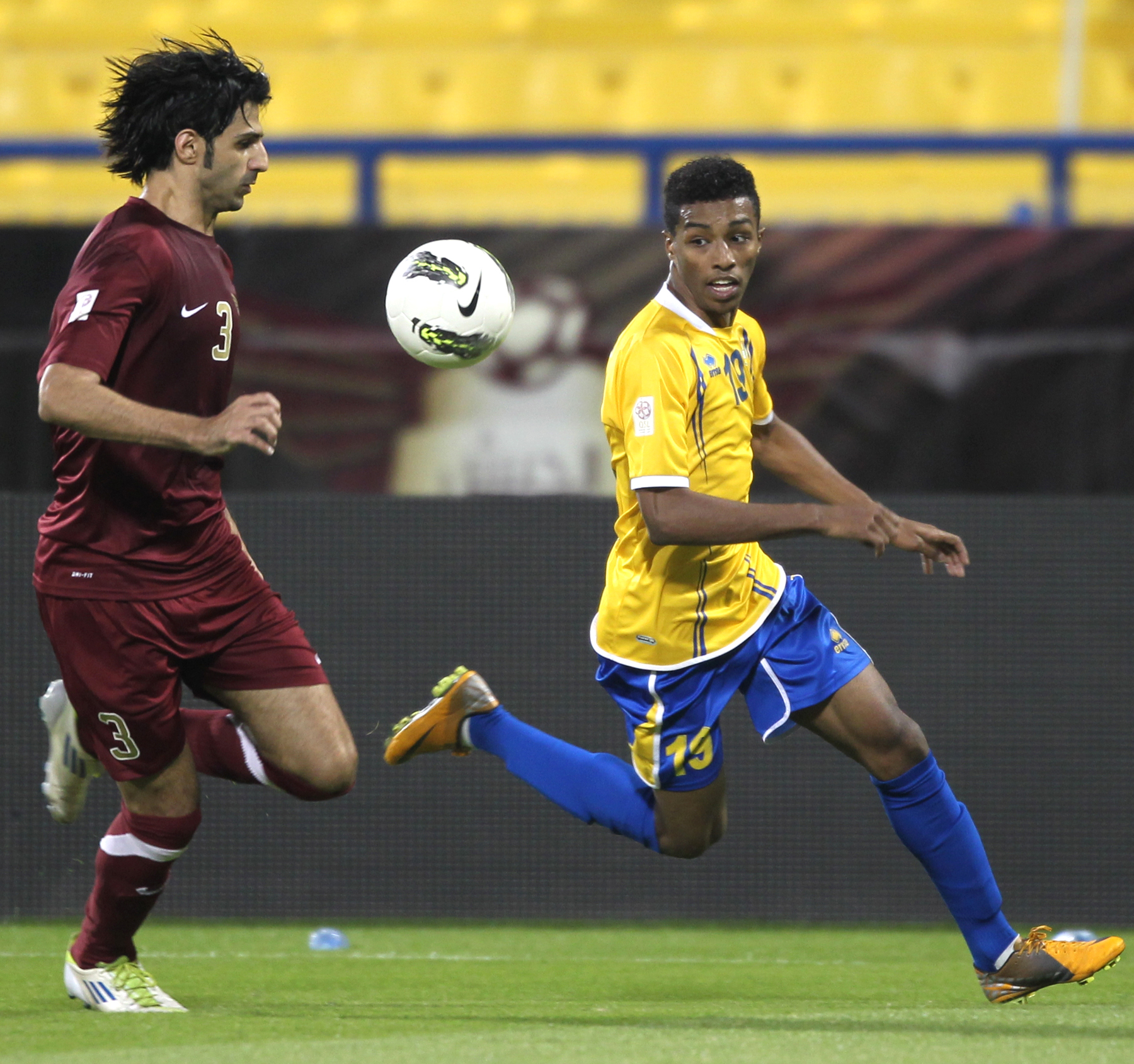 El Jaishs Hussain Ali Baba (left) and Al Gharafa's Moayad Hassan runs with the ball during a Qatar Stars League match. Pic by Mohammed Dabbous